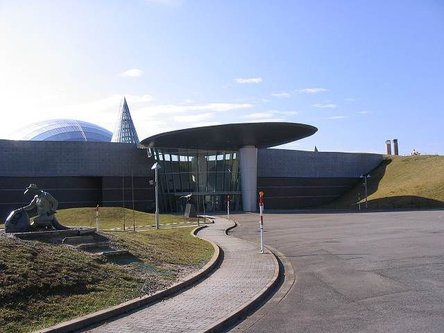 Exterior of the Fukui Prefectural Dinosaur Museum, Japan